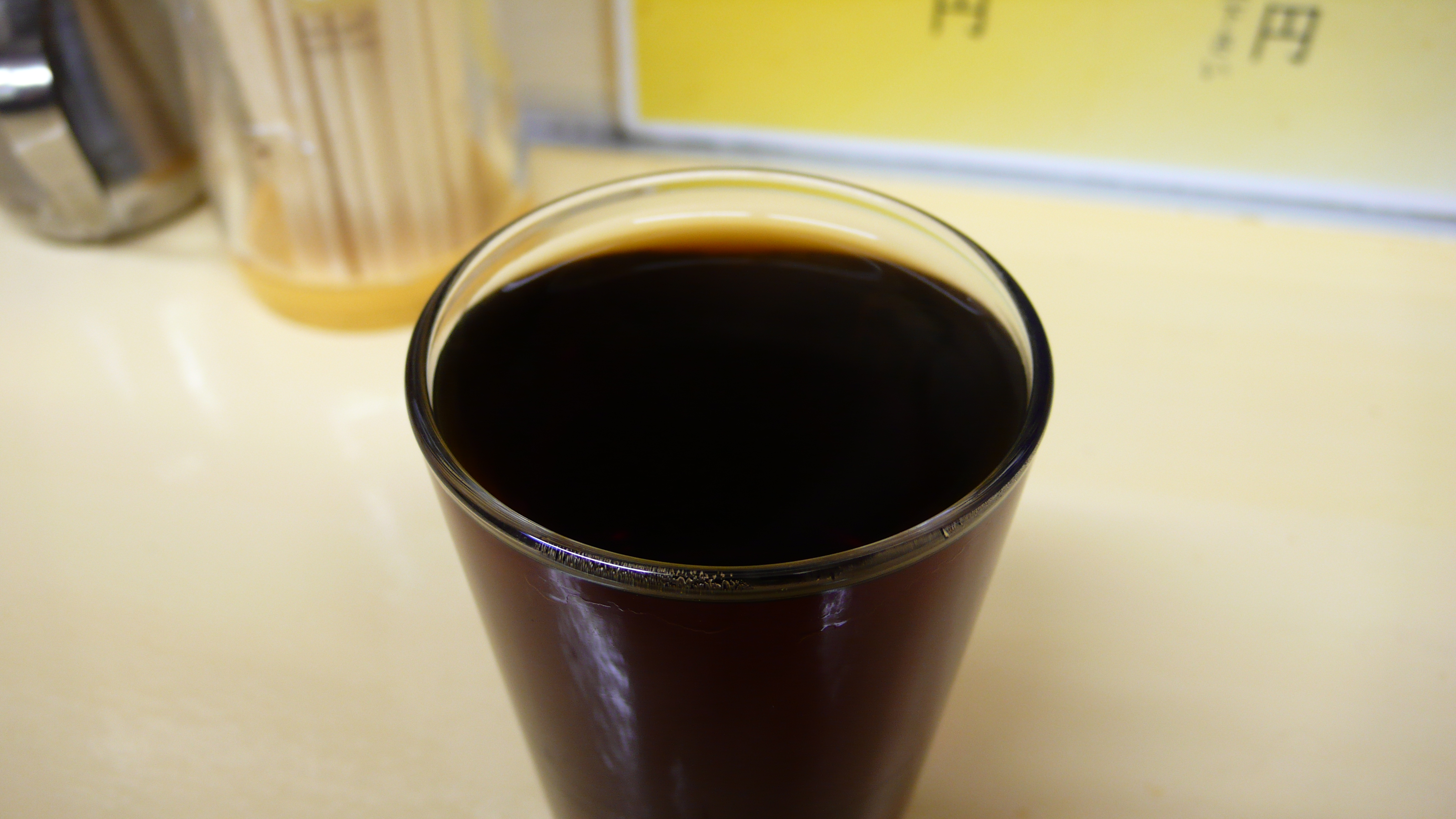 Shaoxing rice wine, served in Koto, Tokyo